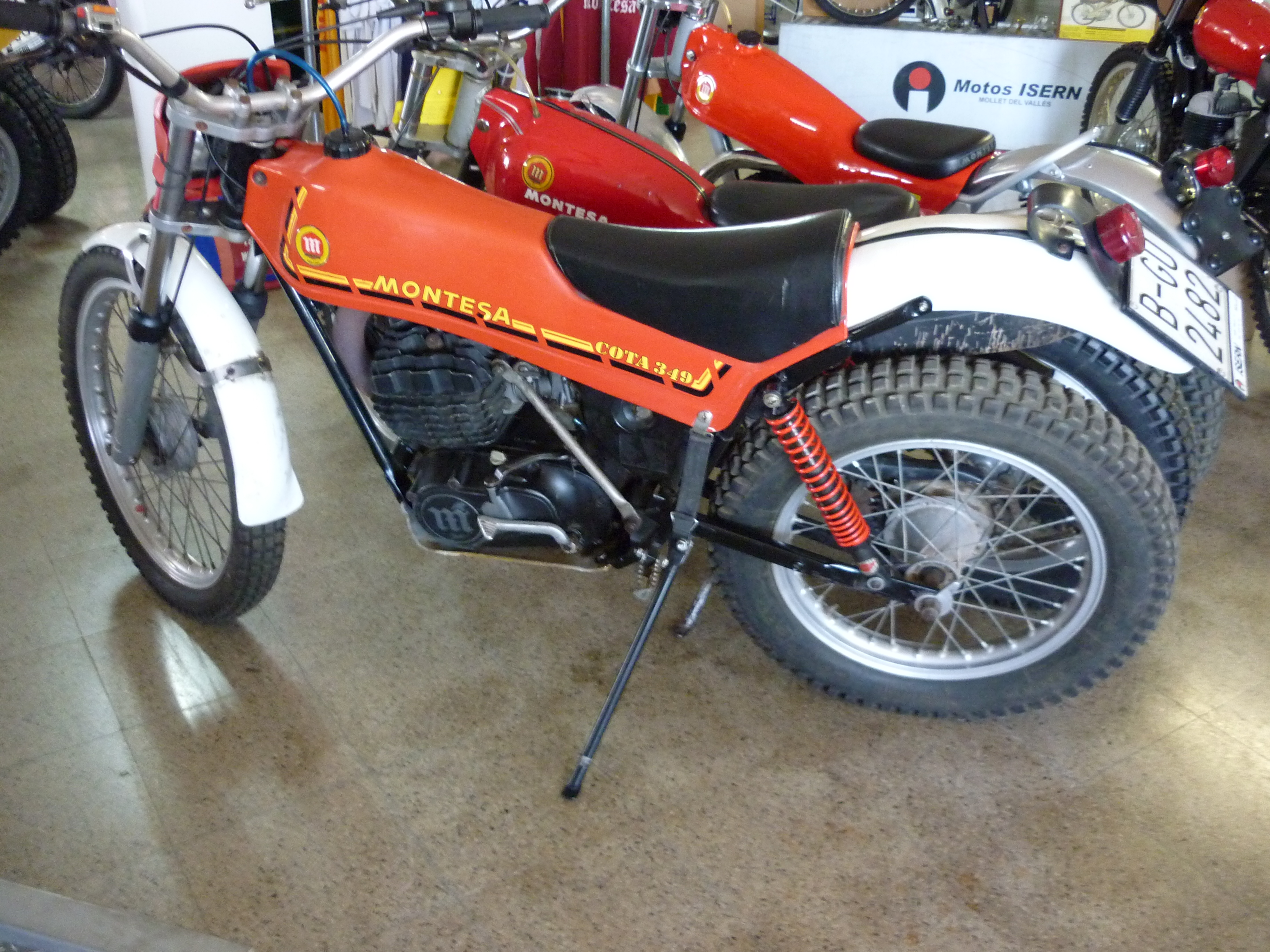 From left to right, a pair of Montesa Cota 247 (1970 and 1972) and a Cota 349 from 1980.Isern Motorcycle Museum, Mollet del Vallès (Catalonia).